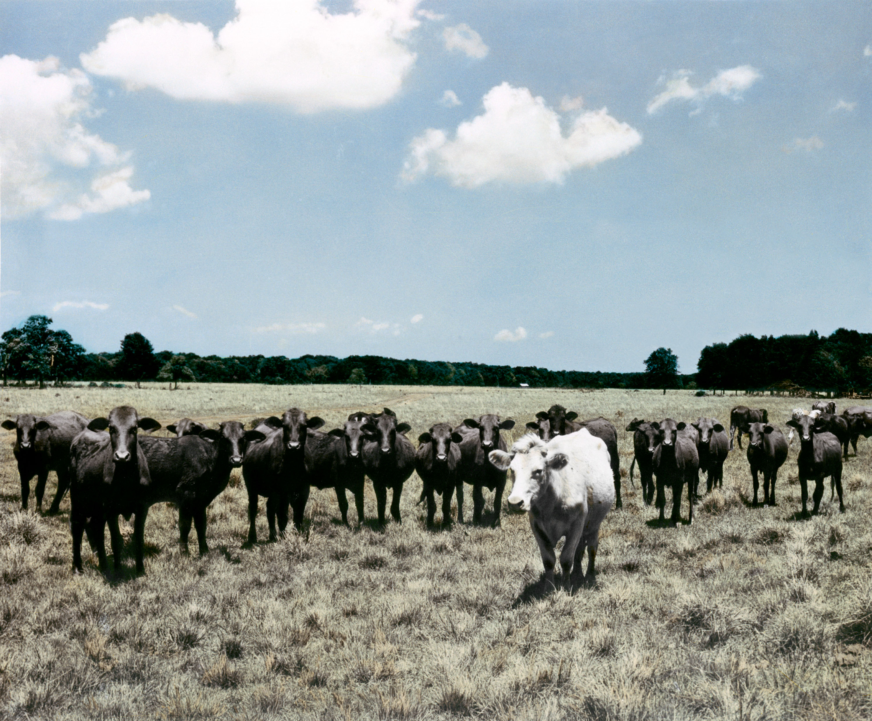 Collection: NASA Johnson Space Center Collection Title: Site for the Manned Spacecraft Center in Houston prior to ground breaking Description: Site for the Manned Spacecraft Center in Houston prior to ground breaking. The area was grazing land for cattle, such as those in the view. Photo is labeled at the bottom "MSC Site January 1962". Date Taken: 1964-08-31 Photo ID: S64-21000 UID: SPD-JSC-S64-21000 Original url: SOURCE: Visit for the most comprehensive compilation of NASA stills, film and video, created in partnership with Internet Archive.